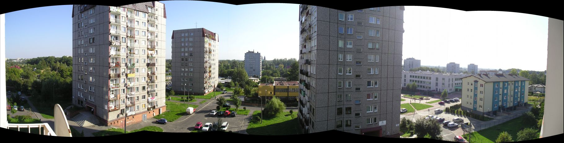 Housing development in Ligota-Panewniki